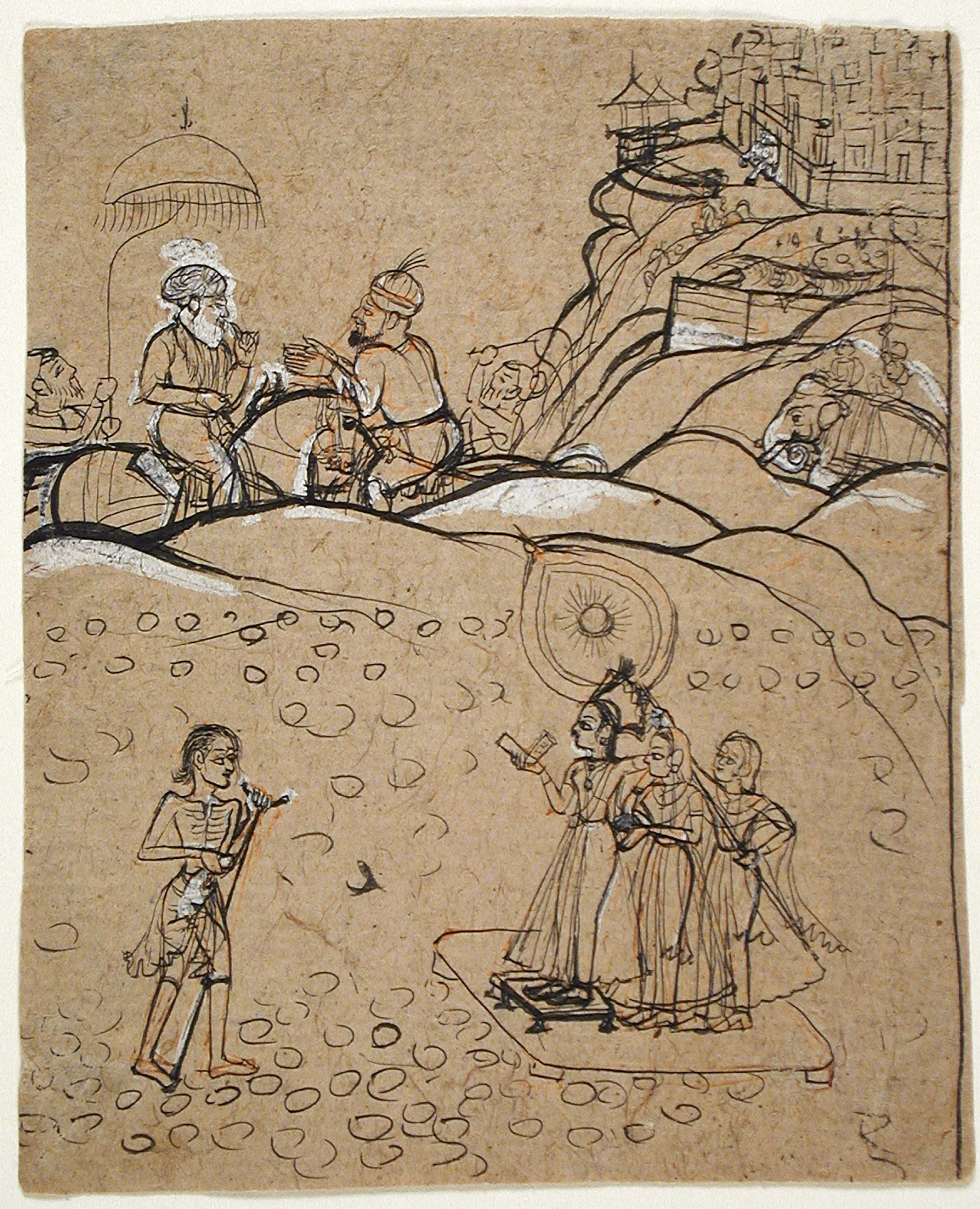 India, Rajasthan, Bundi, circa 1770 Drawings Ink and opaque watercolor on paper 6 1/4 x 5 in. (15.87 x 12.7 cm) Gift of Paul F. Walter (M.79.191.4) South and Southeast Asian Art